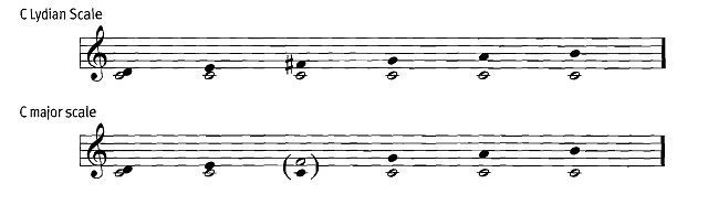 Resolución de cada grado en las escalas mayor y lidia